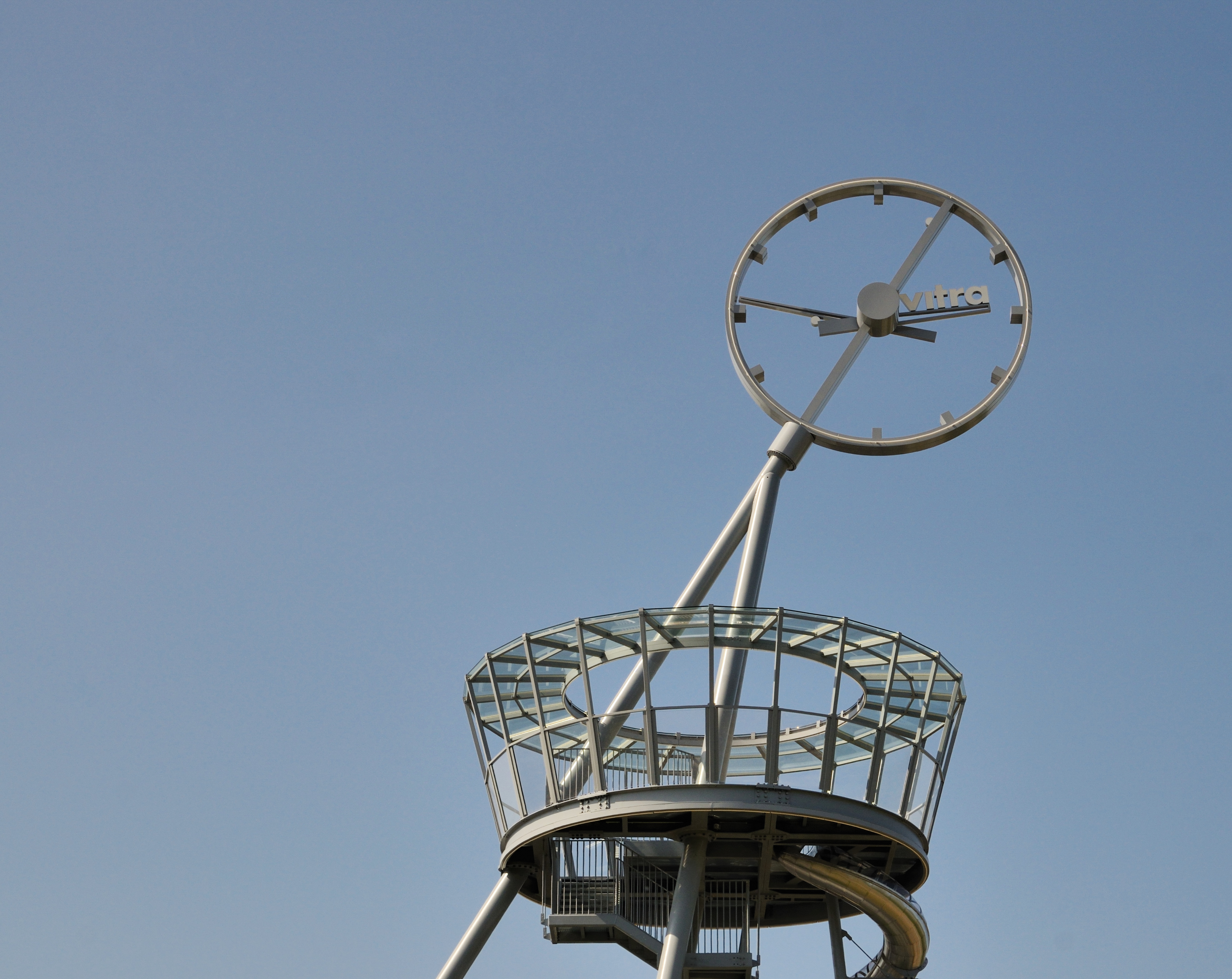 Vitra Slide Tower